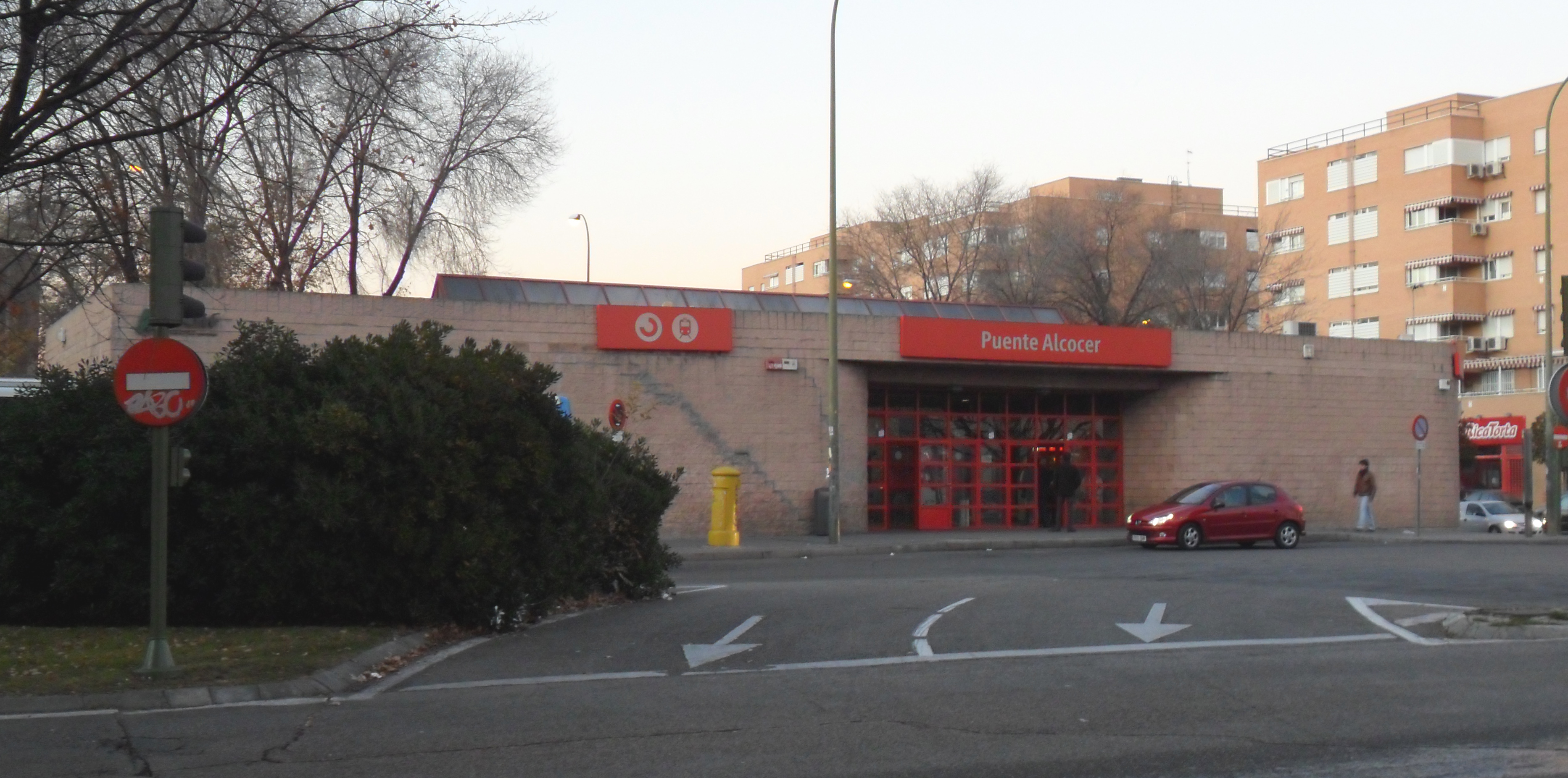 Entrance of Puente Alcocer Cercanías station in Madrid (Spain).